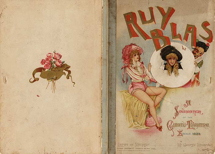 Gaiety Theatre Souvenir brochure for Ruy Blas and the Blasé Roué